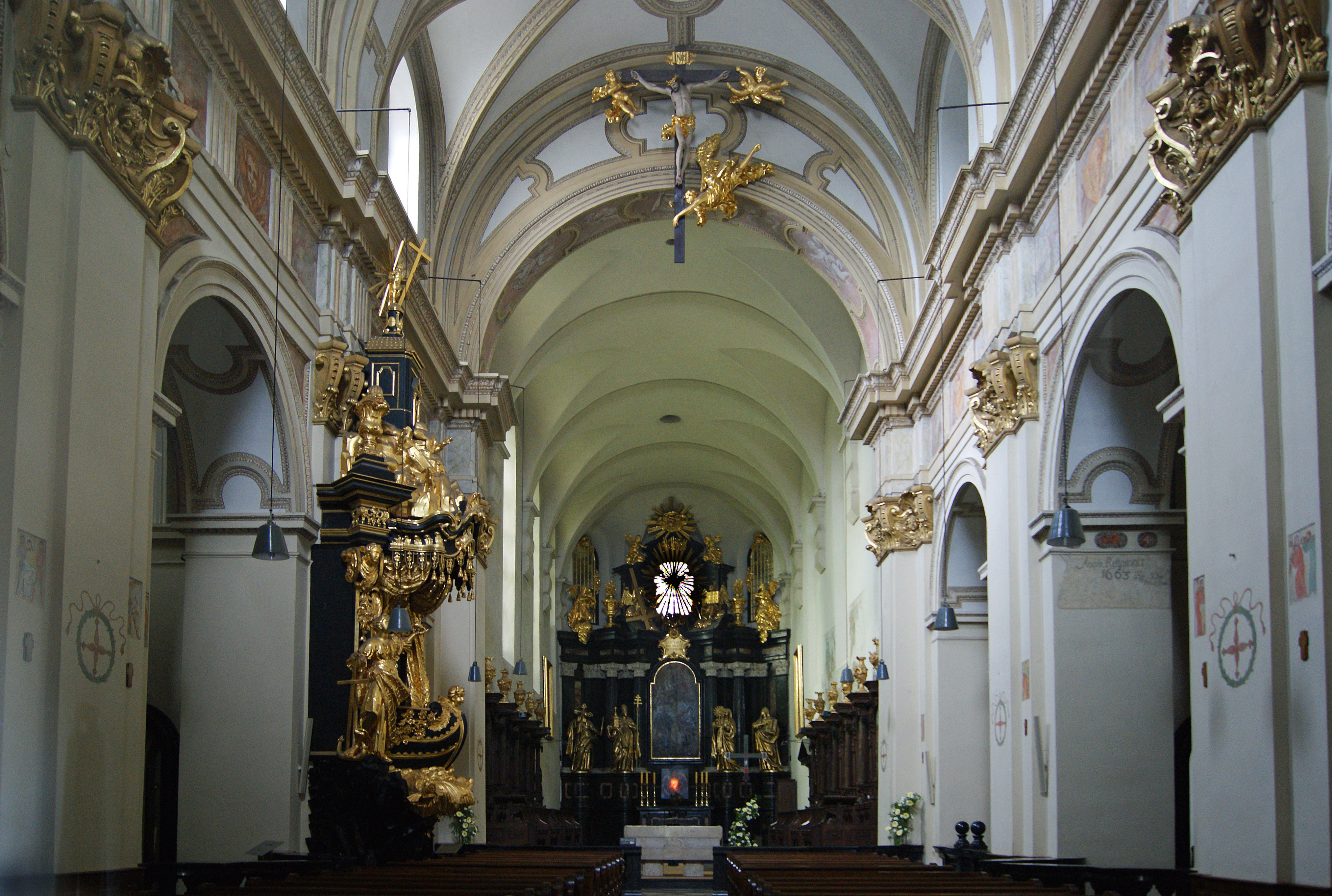 Church of St.Peter and St.Paul (Benedictine Monastery), interior, 37 Benedyktyńska street, Tyniec, Krakow, Poland